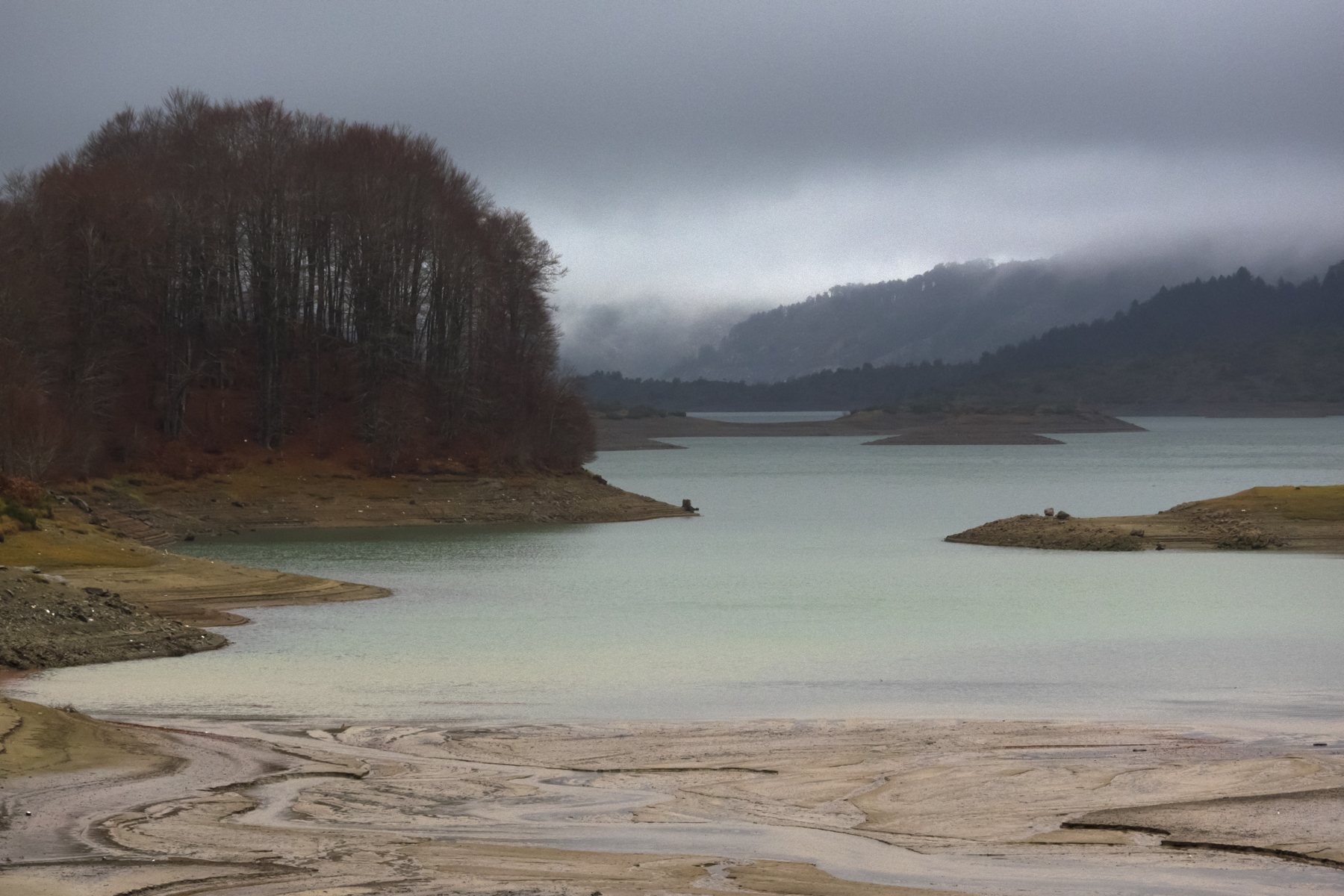 Aoou lake inside National park of Valia Kalda by Philip Gavrilos This is a photography of Natura 2000 protected area with ID GR1310003